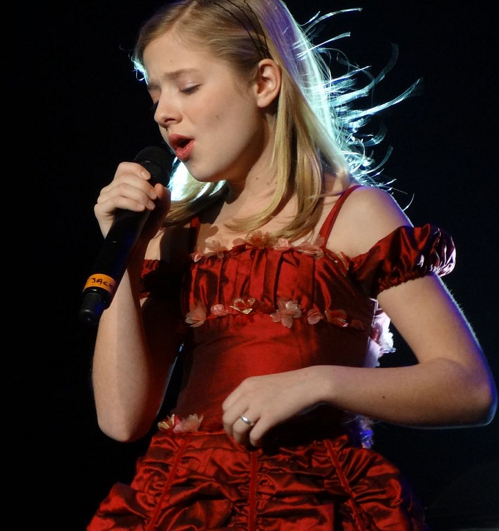 Jackie Evancho performing at Mandalay Bay Hotel in Las Vegas, Nevada, on December 29, 2011 as the headline in the "David Foster & Friends" show. Photographed with a Sony DSC-HX9V. This image shows her wearing a red dress in the 2nd half of the concert.